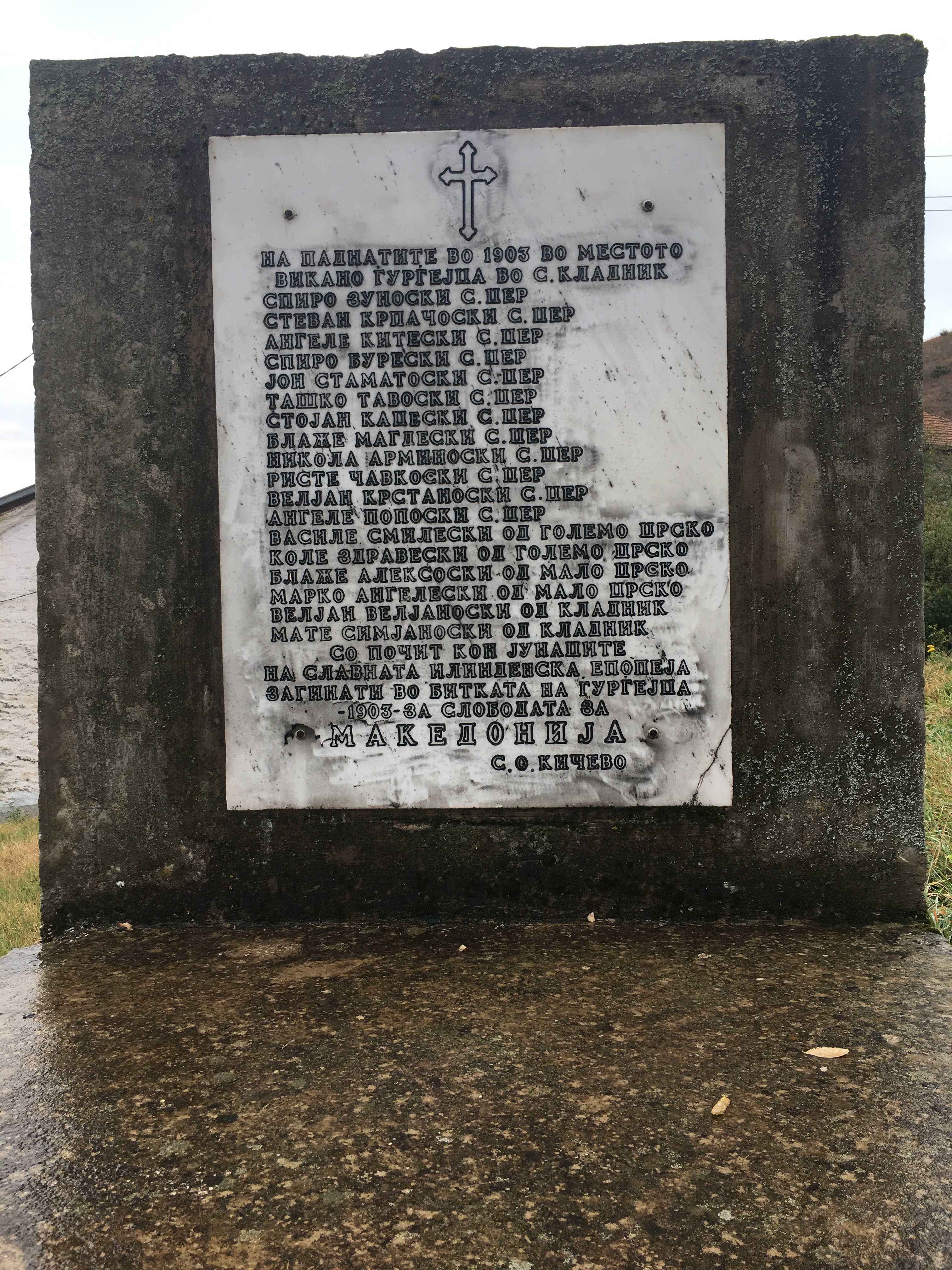 Wikiexpedition to Kopačka